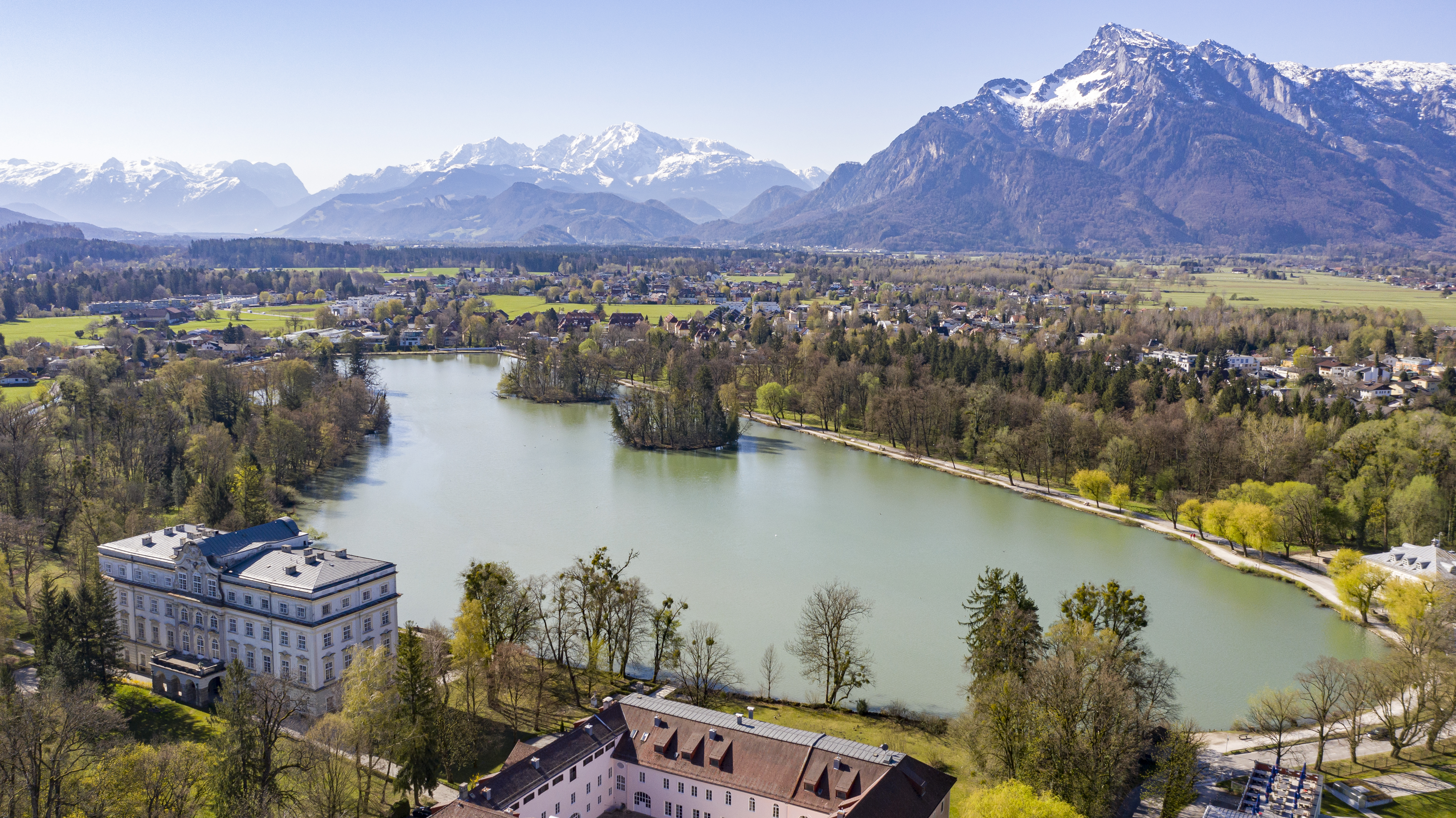 Aerial view of Leopoldskroner Weiher, Salzburg, Austria